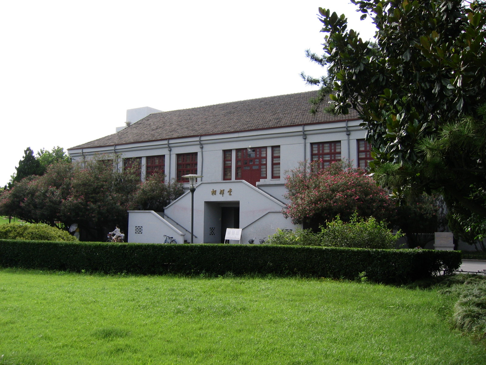 复旦大学相辉堂 the Xianghui Auditorium, Fudan University, Shanghai, China